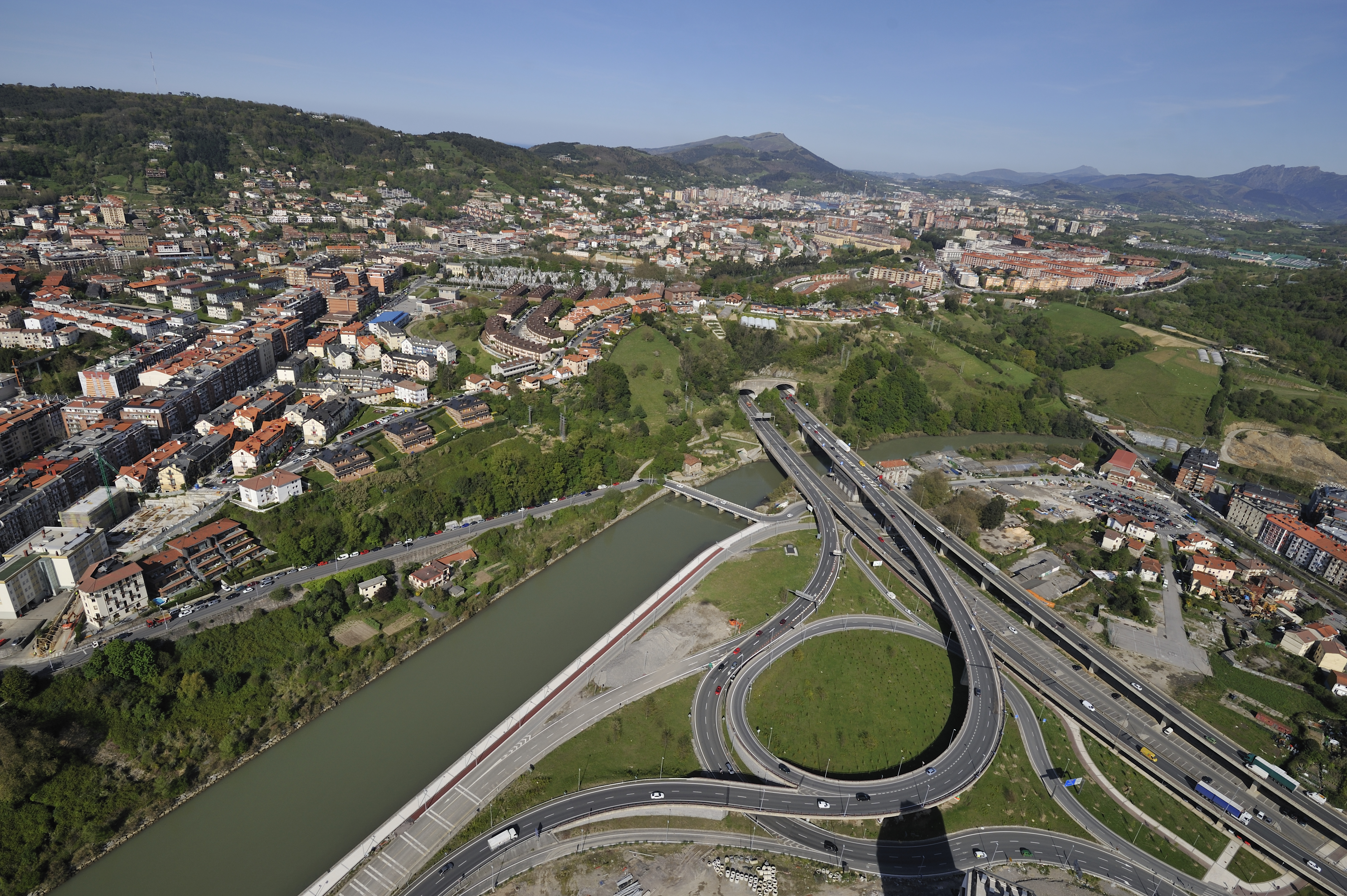 Bridge of Egia, Urumea river, Egia and Loiola. Donostia-Saint Sebastian. Basque Country.